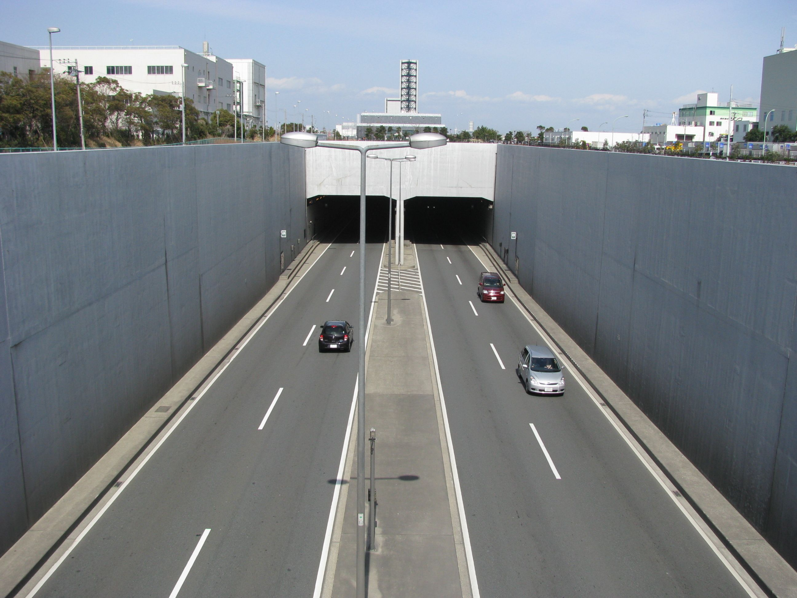 The Tokyo bay Rinkai tunnel. This location is Jyōnan-jima in Ōta, Tokyo, Japan.